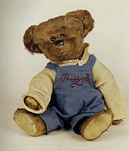 The "original" Teddy "B" Bear, Ideal Novelty Company, Plush, circa 1903. Sagamore Hill National Historic Site, Oyster Bay, New York this bear is called timothy Green